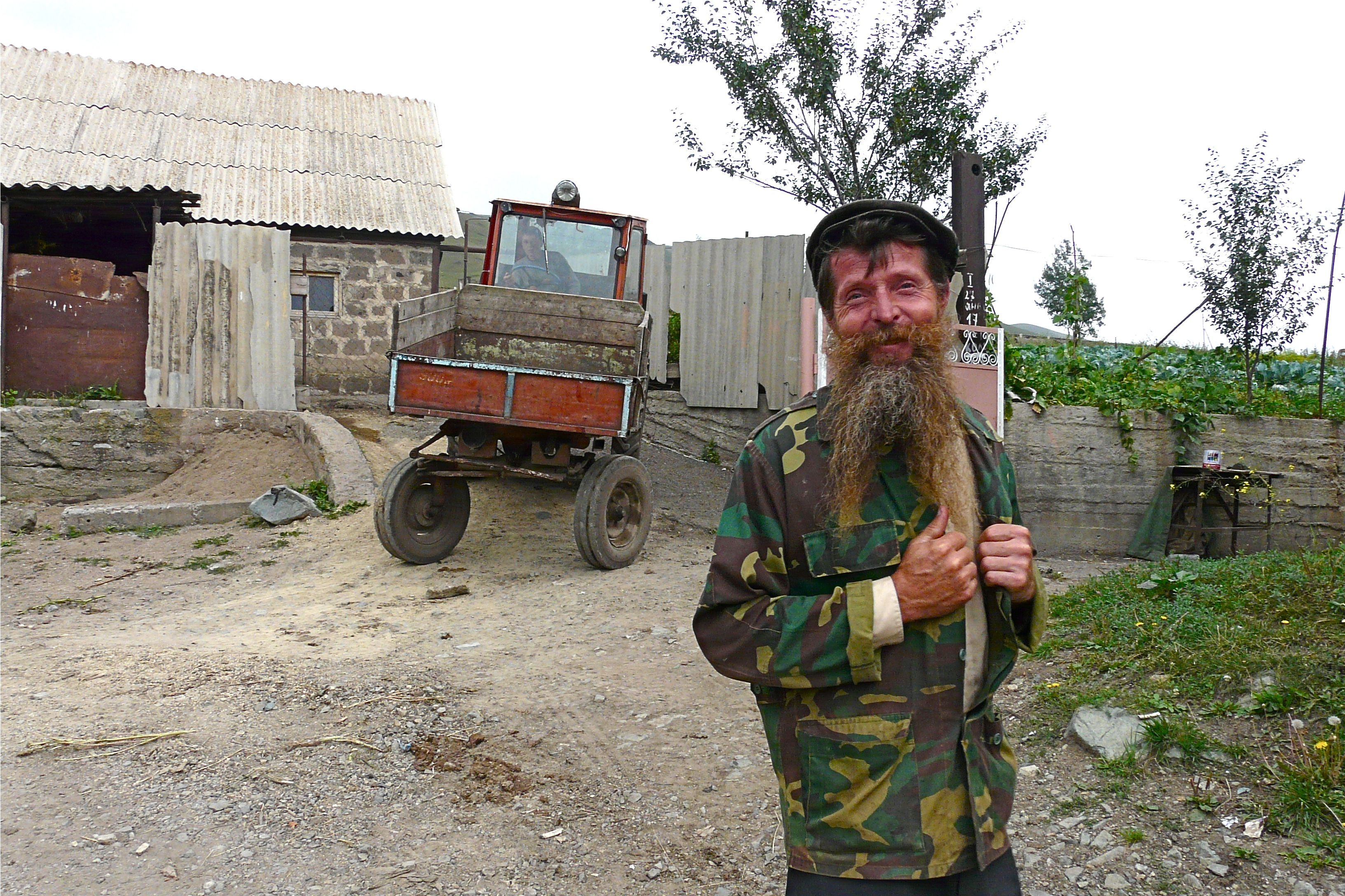 Molokan villager in Fioletovo, Armenia.